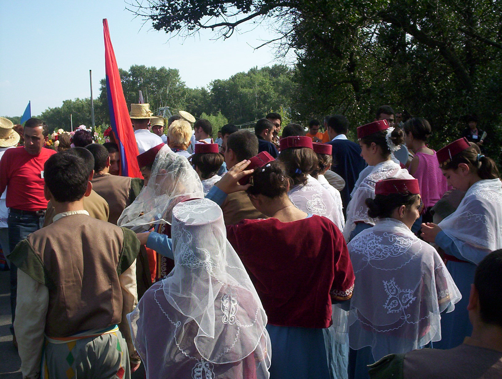 Armenians Festival 2005